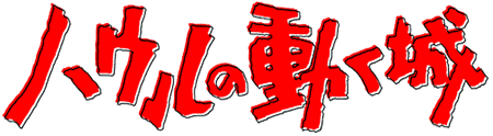 Howl's Moving Castle (ハウルの動く城) Japanese logo.